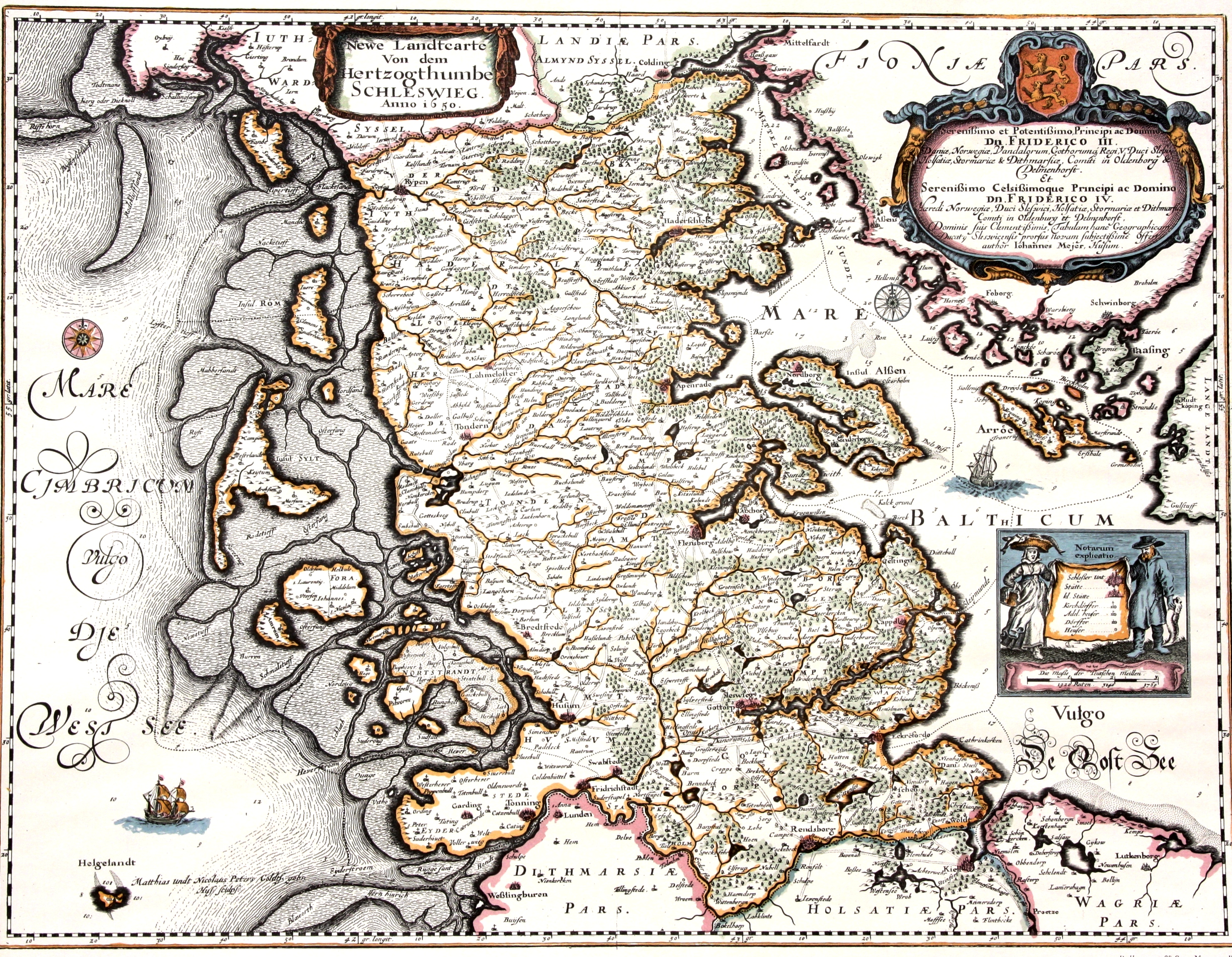 Map of the Duchy of Schleswig 1650. The map shows the original area of the duchy.